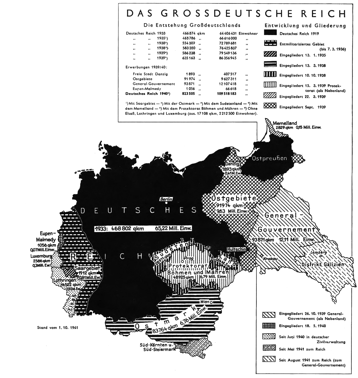 A section of page 7 of the "Soldaten Atlas" published by the OKH during WWII (this edition 1941). Not sold to the public or used outside the Military.